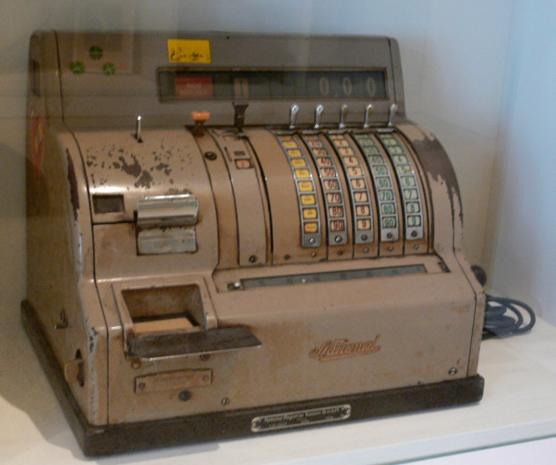 Museum Humpisquartier, Ravensburg Registrierkasse der Humpisstuben, Schenkung Heiner König Humpis-Quartier Native nameMuseum Humpis-QuartierLocationRavensburg, GermanyCoordinates47° 46′ 49.8″ N, 9° 36′ 57.24″ E Established2009Web page control : Q1637298 VIAF: 128828875 LCCN: nb2007020847 GND: 4565586-8 WorldCat institution QS:P195,Q1637298